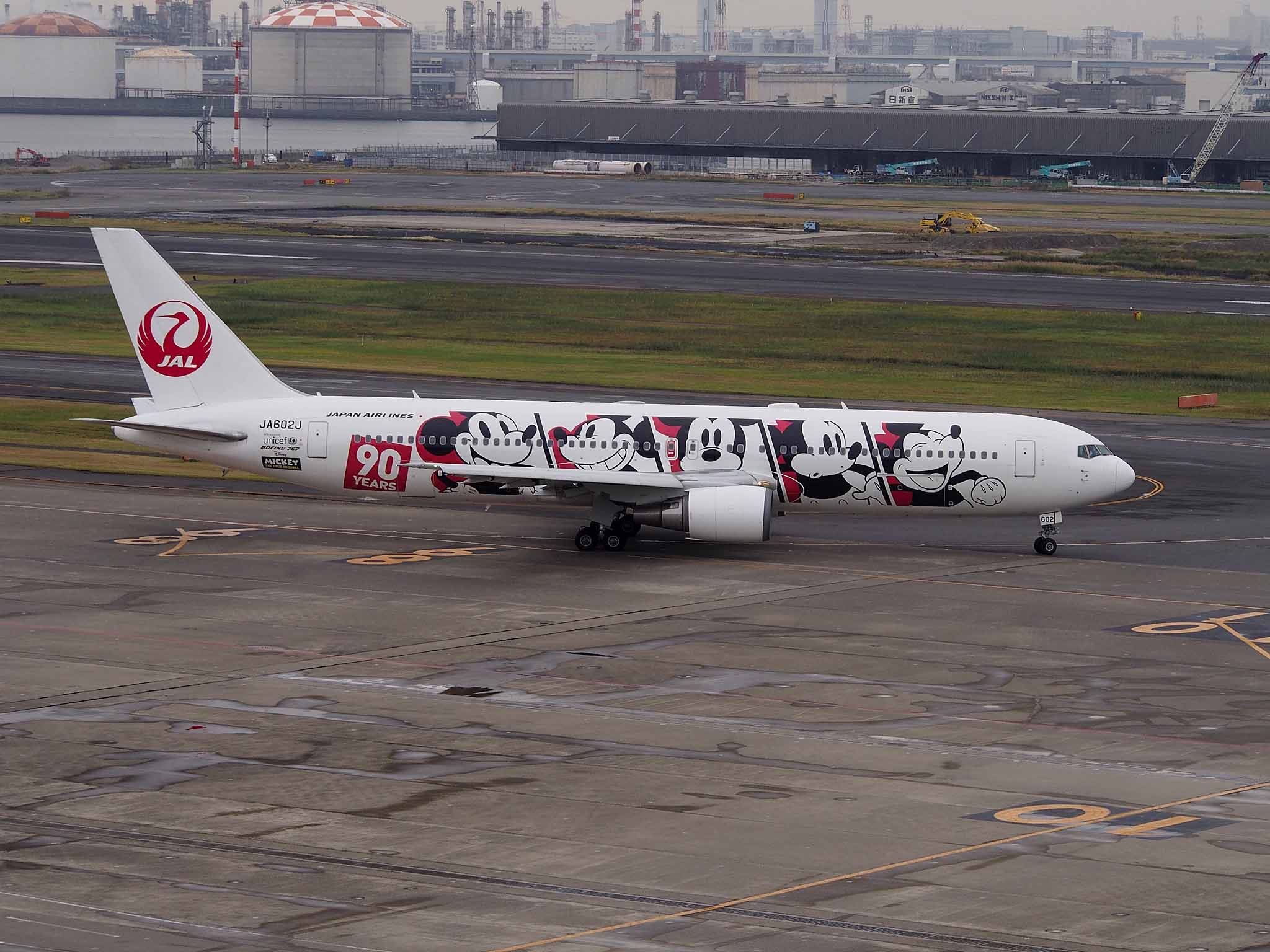 JAL Dream Express 90, marked 5 Mickey Mouses for 90th anniversary since November 2018.